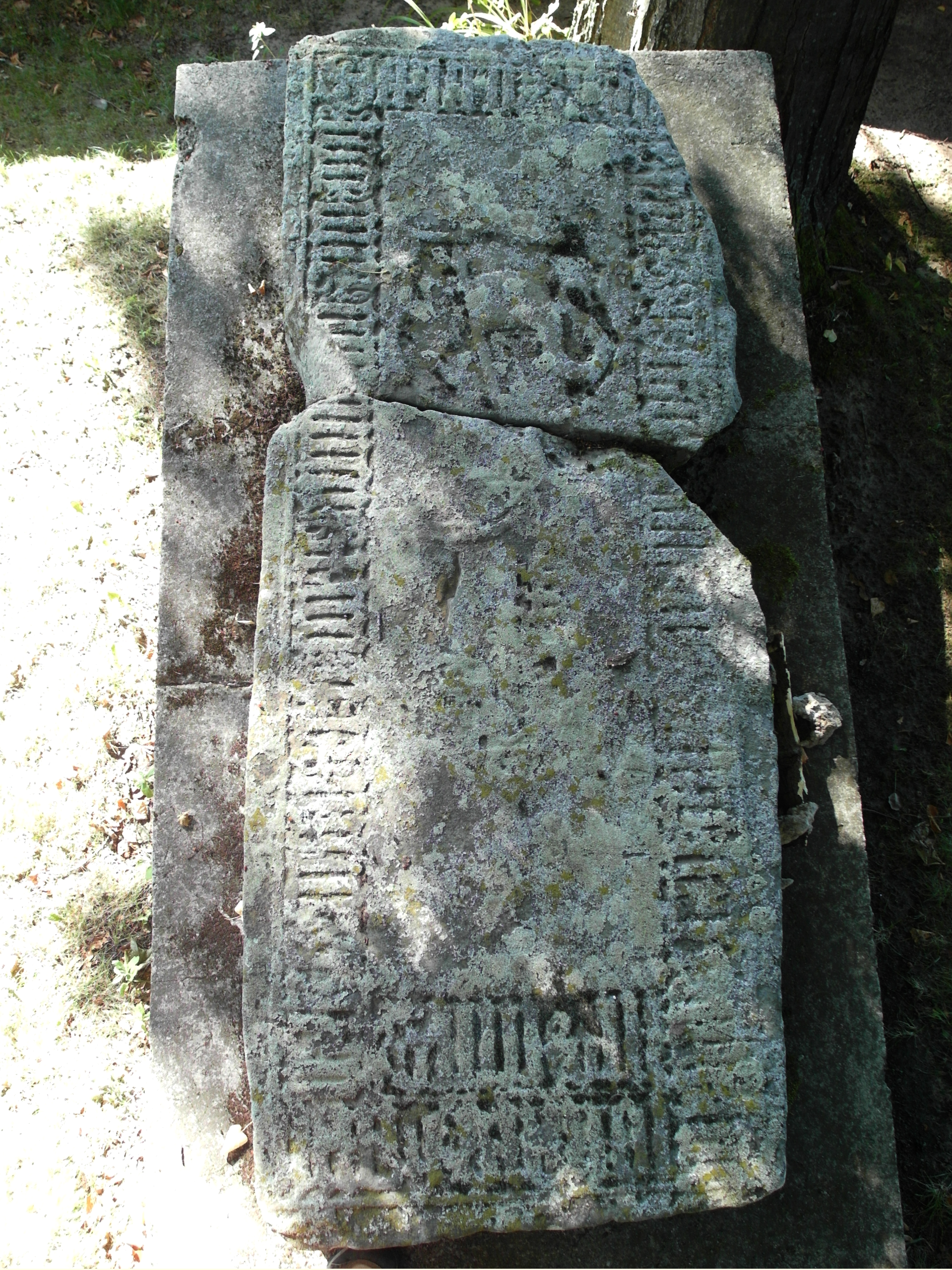 Tombstone of Bartłomiej of Belsko Stare, Chynów, Masovian Voivodeship